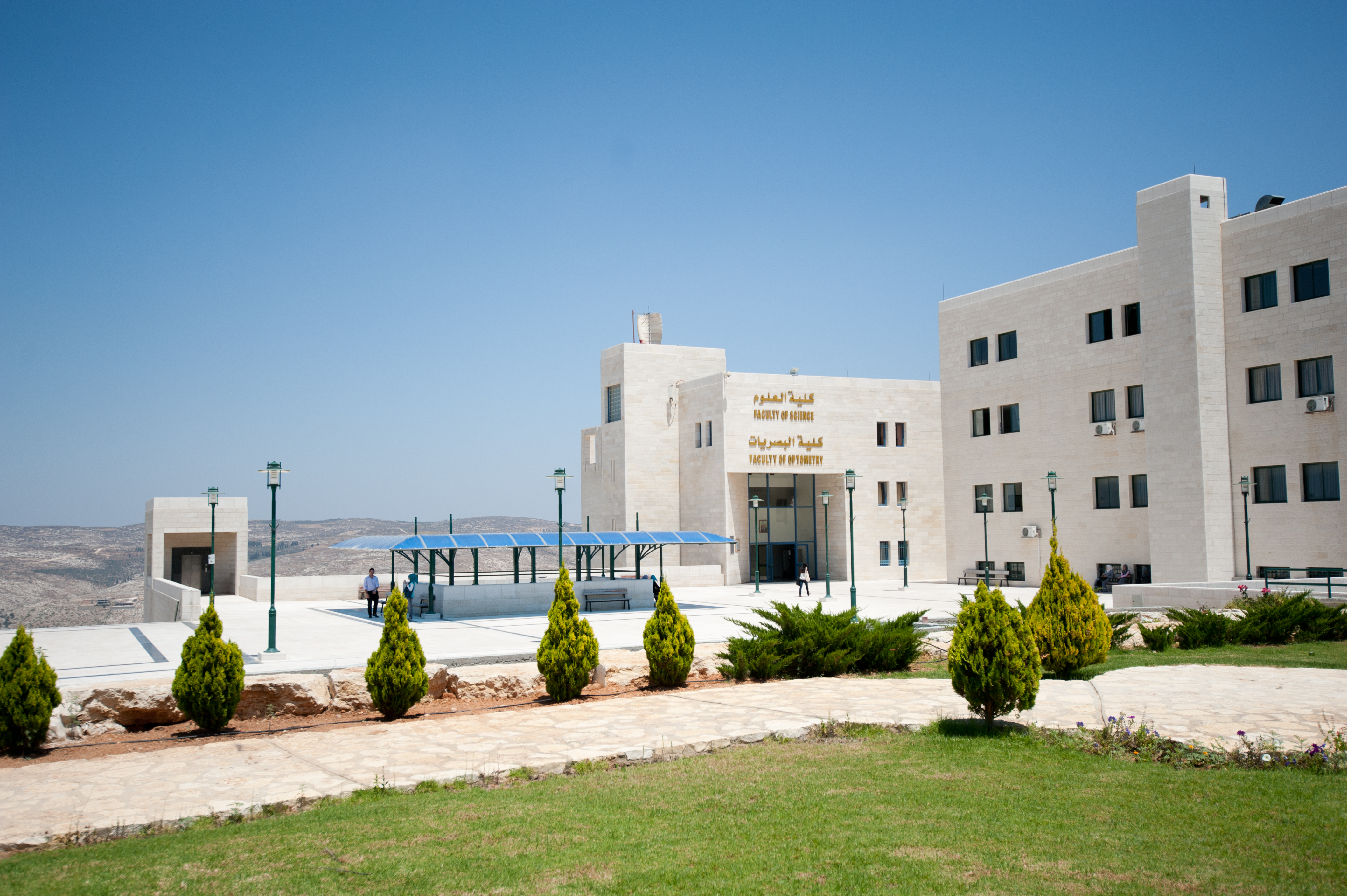 An-Najah University in Nablus, West Bank, Palestine